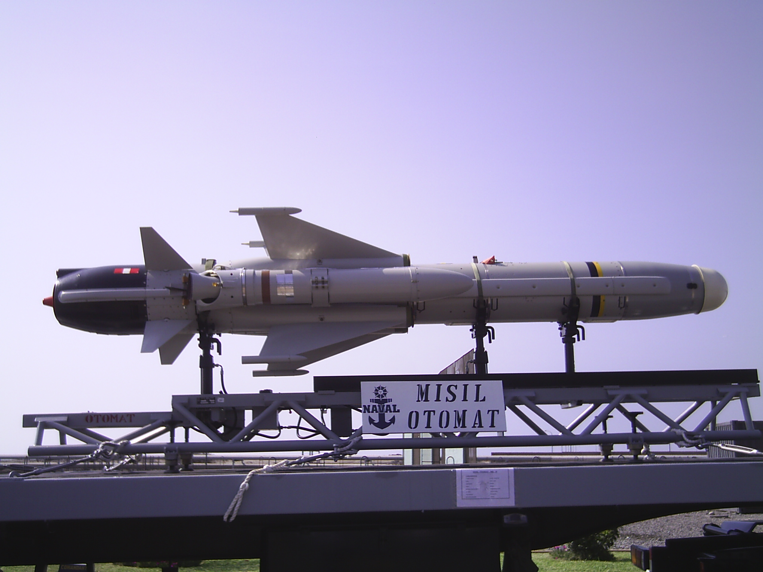 Otomat Mk.2 on display, Callao Naval Base - October 20, 2007 (Photographer:User:Cloudaoc)